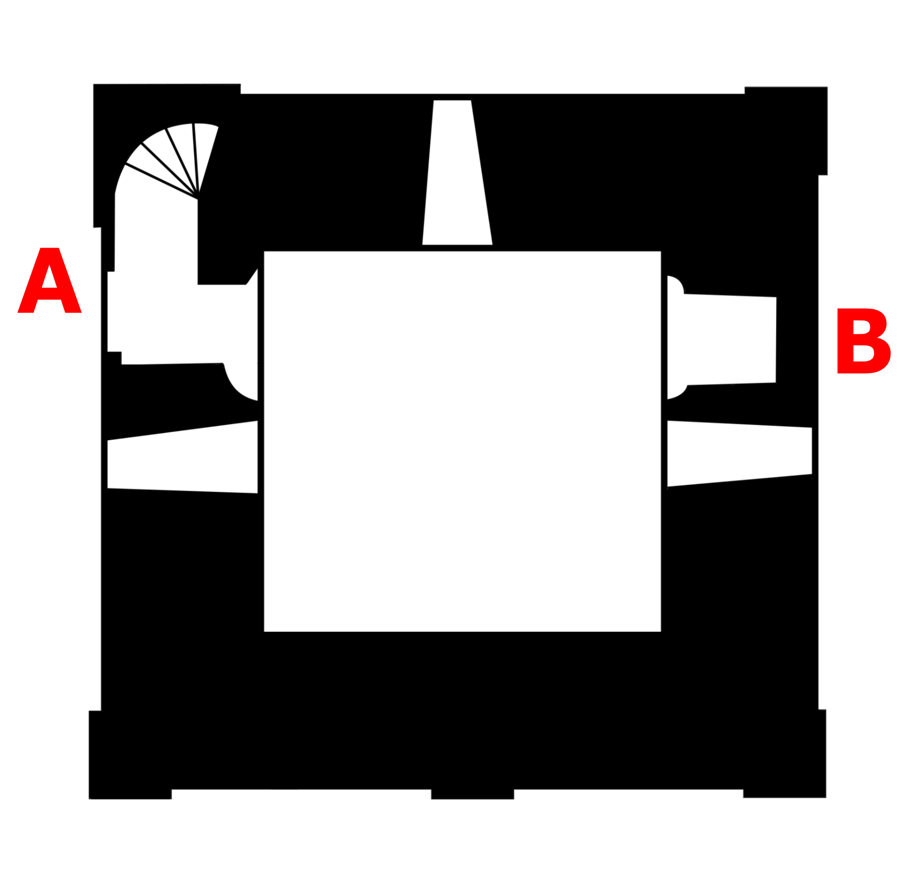 St Leonard's Tower plan; after RCHME